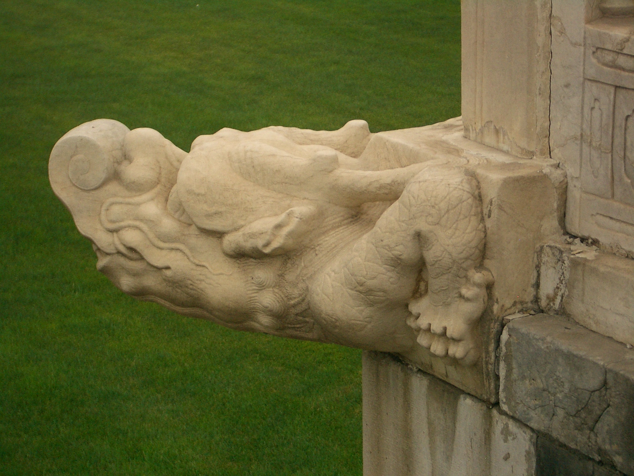 Danbi Bridge, the raised walkway between the Hall of Prayer for Good Harvests (祈年殿, the main building) and the Imperial Vault of Heaven (皇穹宇, further south) within the Temple of Heaven grounds.